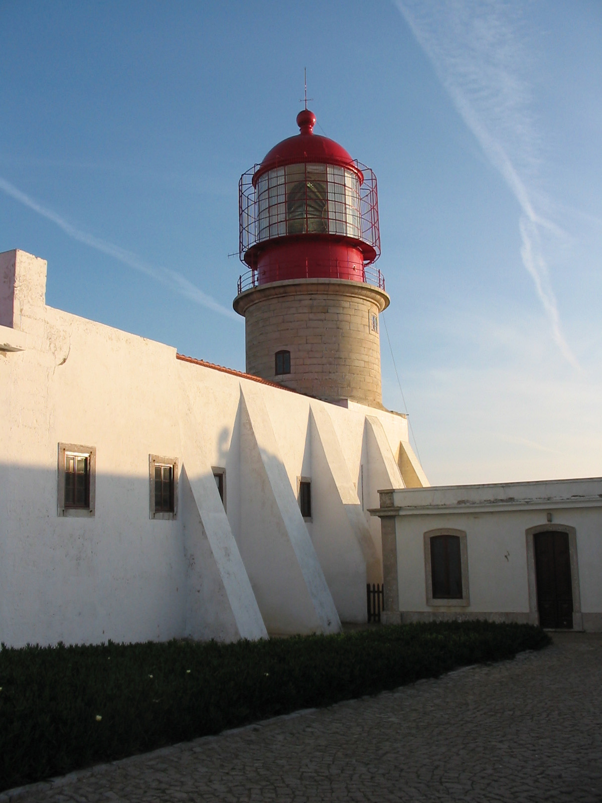 Lighthouse at Cabo de São Vicente